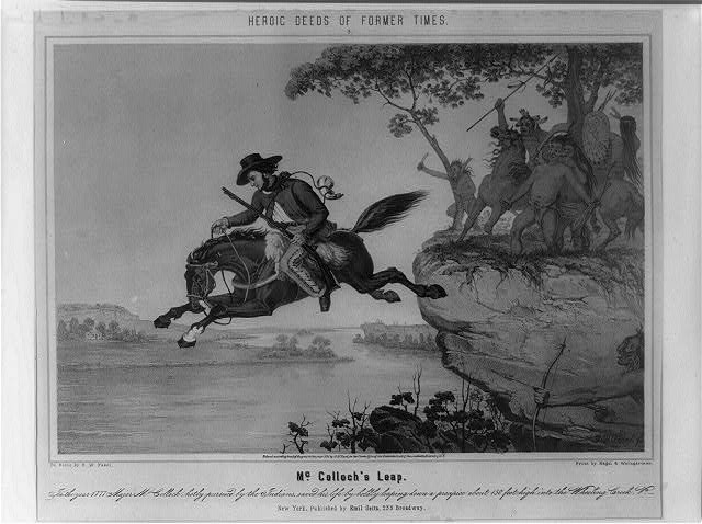 "McColloch's_Leap", a legendary feat in 1777, during the American Revolutionary War in Wheeling, West Virginia